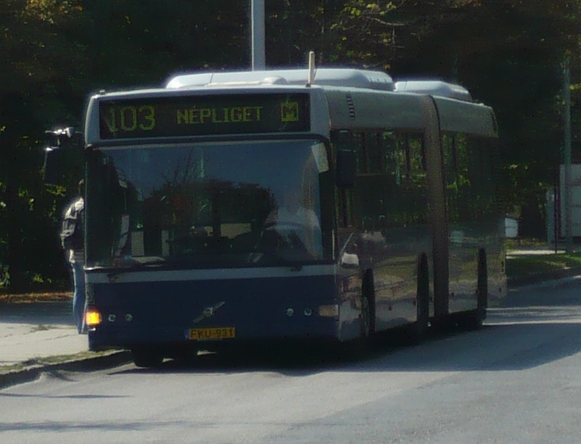 Volvo 7700A bus (#29-31, reg. FKU-931) in Budapest on line 103. Built 2005, BKV Budapest operator.